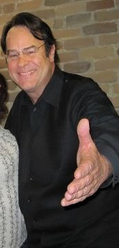 Dan Aykroyd works with Bob Bekian in the Loyal Studios Santa Monica Facility on several projects including Public Service announcements, Voice overs and a documentary on the making of "Ghostbusters" on September 9, 2010